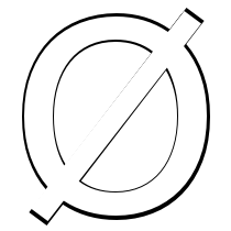 The neutrois gender symbol, as described on , for use in gender-related articles and userboxes. It's also a diameter and average sign (Unicode: U+2300 ⌀) and also a symbol for the empty set (Unicode: U+2205 ∅)